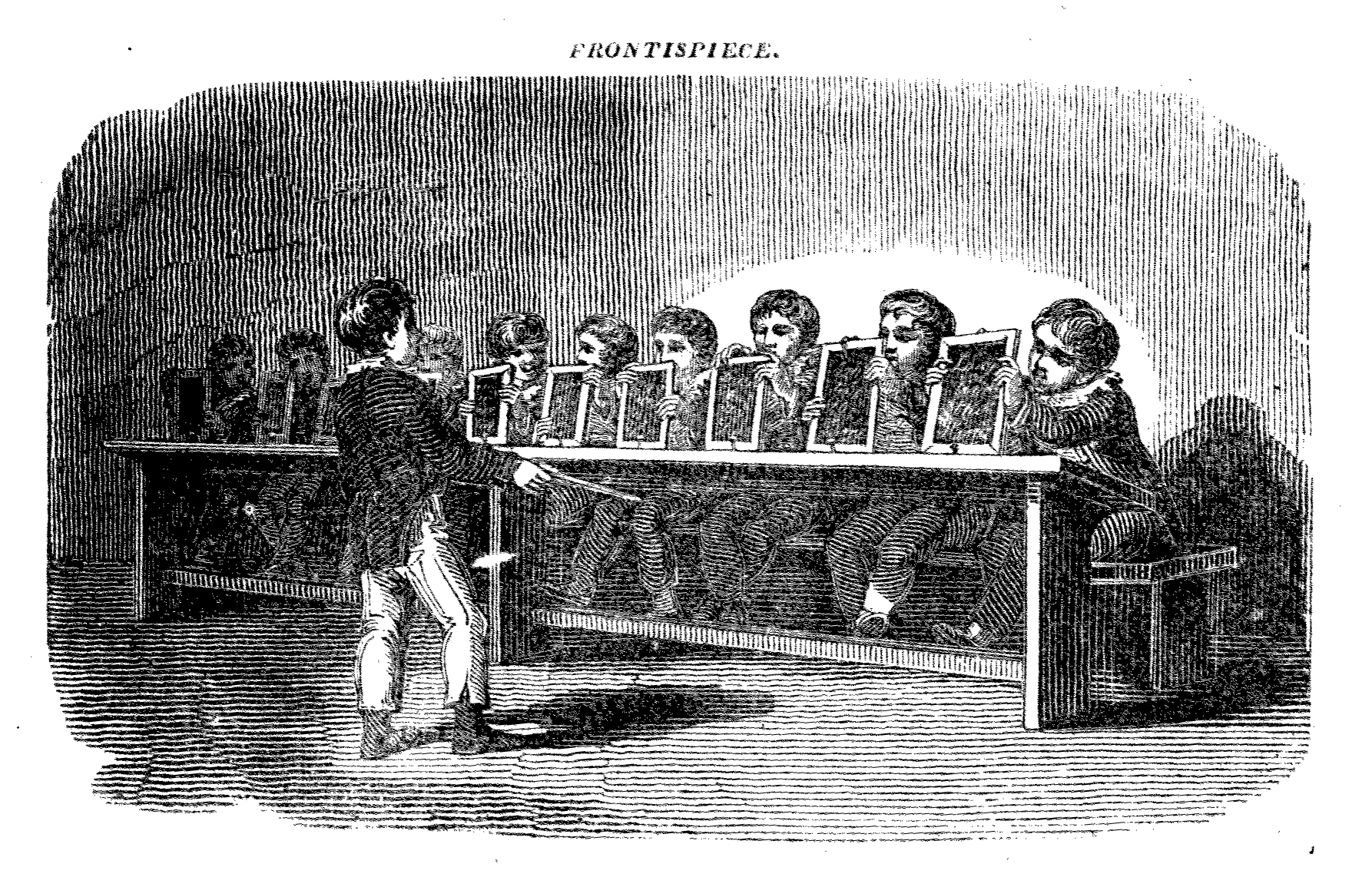 A monitor in a monitorial school instructing a group of students. Each student has a slate and they all show ther slates to the monitor together.